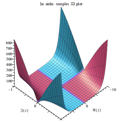 Sinhc Im complex 3D plot